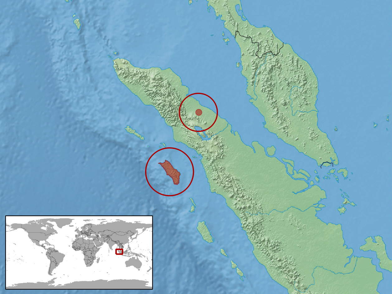 geographic distribution of Calamaria forcarti (Native: Indonesia (Sumatera))